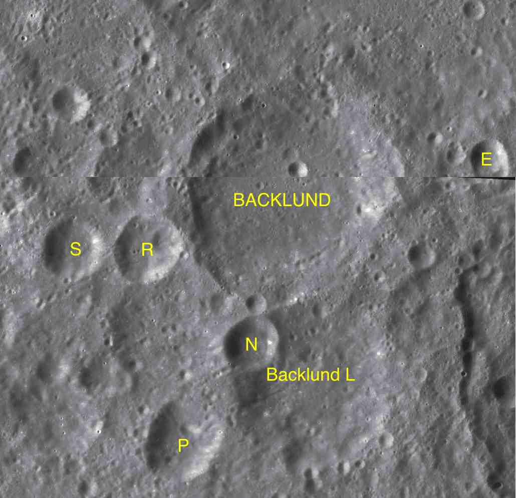 Parts of the charts LAC-82, LAC-100 used for the presentation